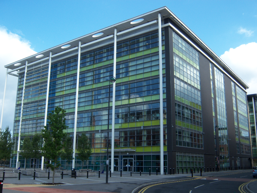 The Offices of the UK Border Agency at Vulcan House, Sheffield.